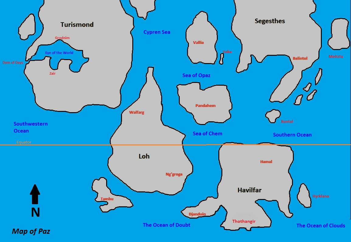 A map of the continents of Paz from the Dray Prescot saga by Kenneth Bulmer.